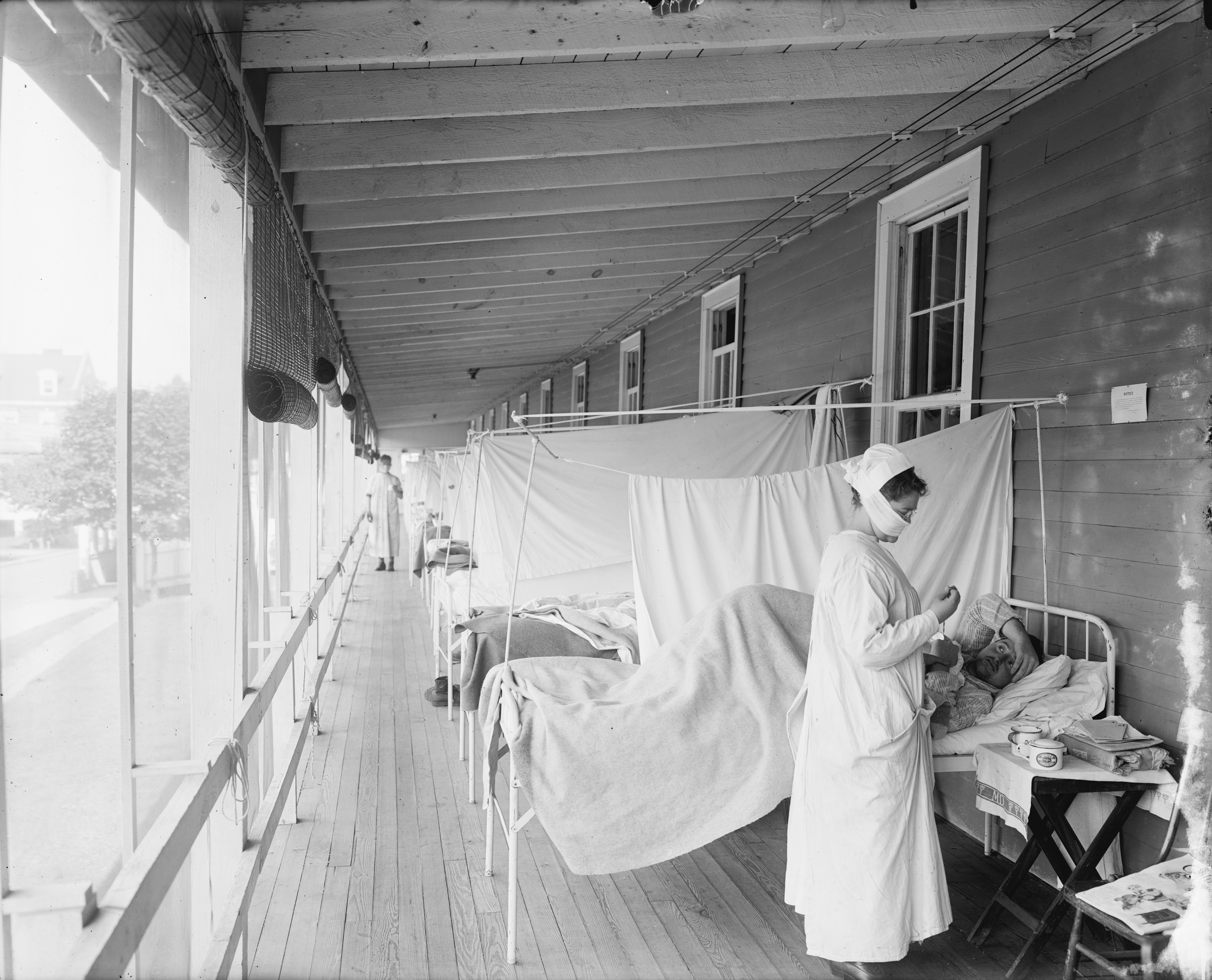 "Walter Reed Hospital Flu Ward". Photo of Walter Reed Hospital, Washington, D.C., during the great Influenza Pandemic of 1918 - 1919, also known as the "Spanish Flu". Patients are set up in rows of beds on an open gallery, seperated by hung sheets. A nurse wears a cloth mask over her nose and mouth.